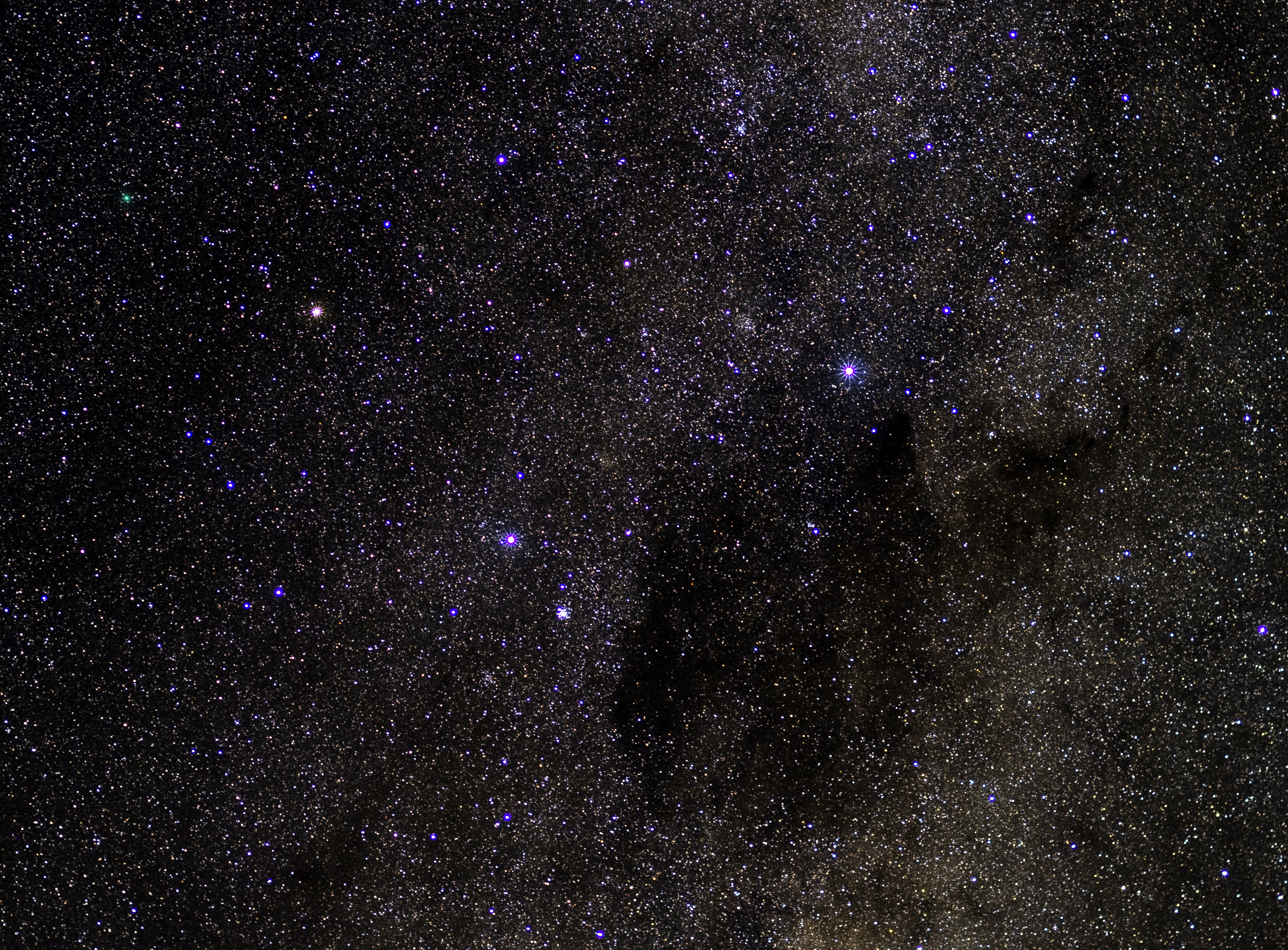 Southern Cross and Coalsack Dark Nebula